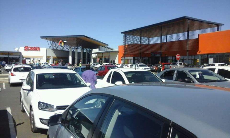 Thabong, Jerusalem park